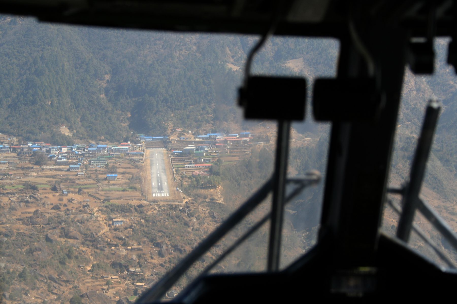 Yeti Airlines de Havilland Canada DHC-6 Twin Otter approaching Lukla Airport (cockpit view)